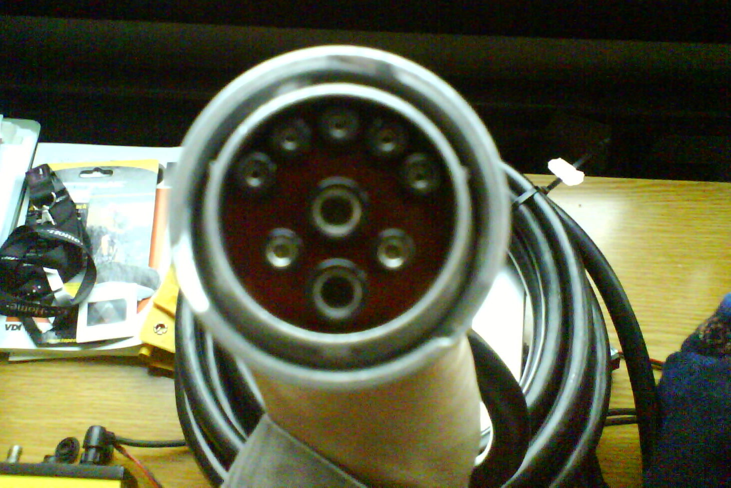 ISOBUS Plug